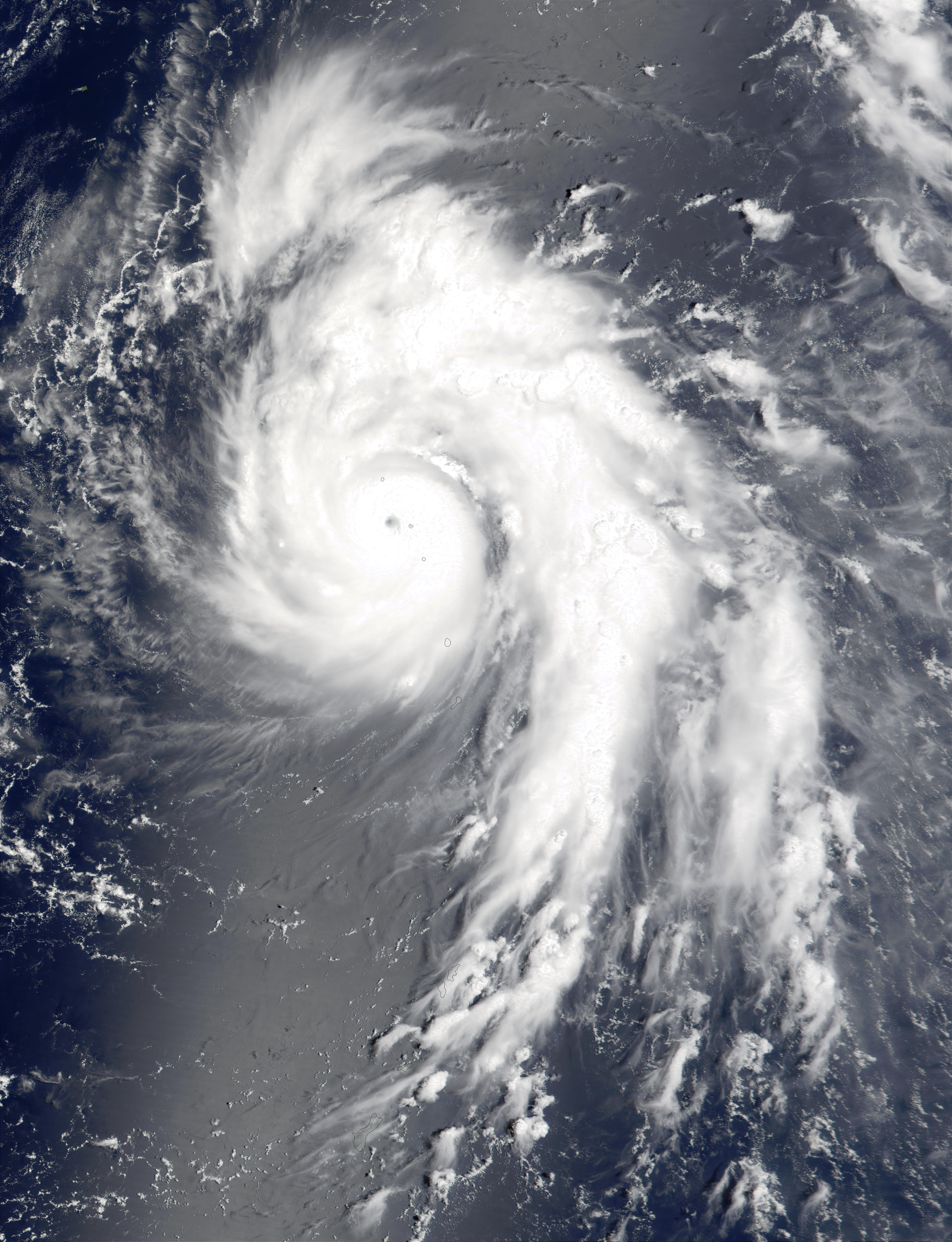 This true-color MODIS image shows Typhoon Man-Yi spinning in the Pacific Ocean over the Northern Mariana Islands, northeast of the Philippines. The Islands are completely obscured by the typhoon, but their location has been drawn in with black outlines. The southernmost of the islands is Guam.